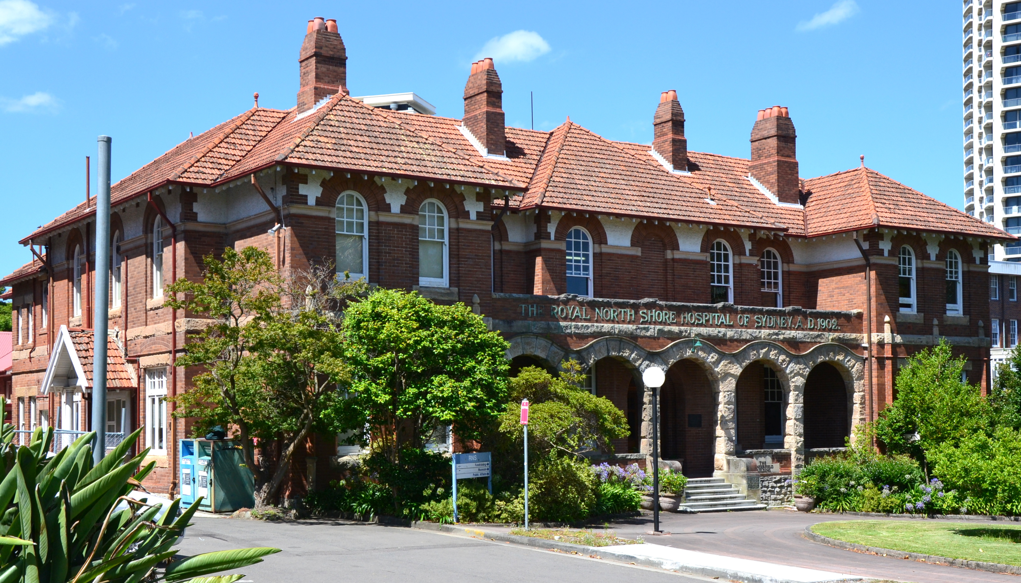 Royal North Shore hospital, Sydney